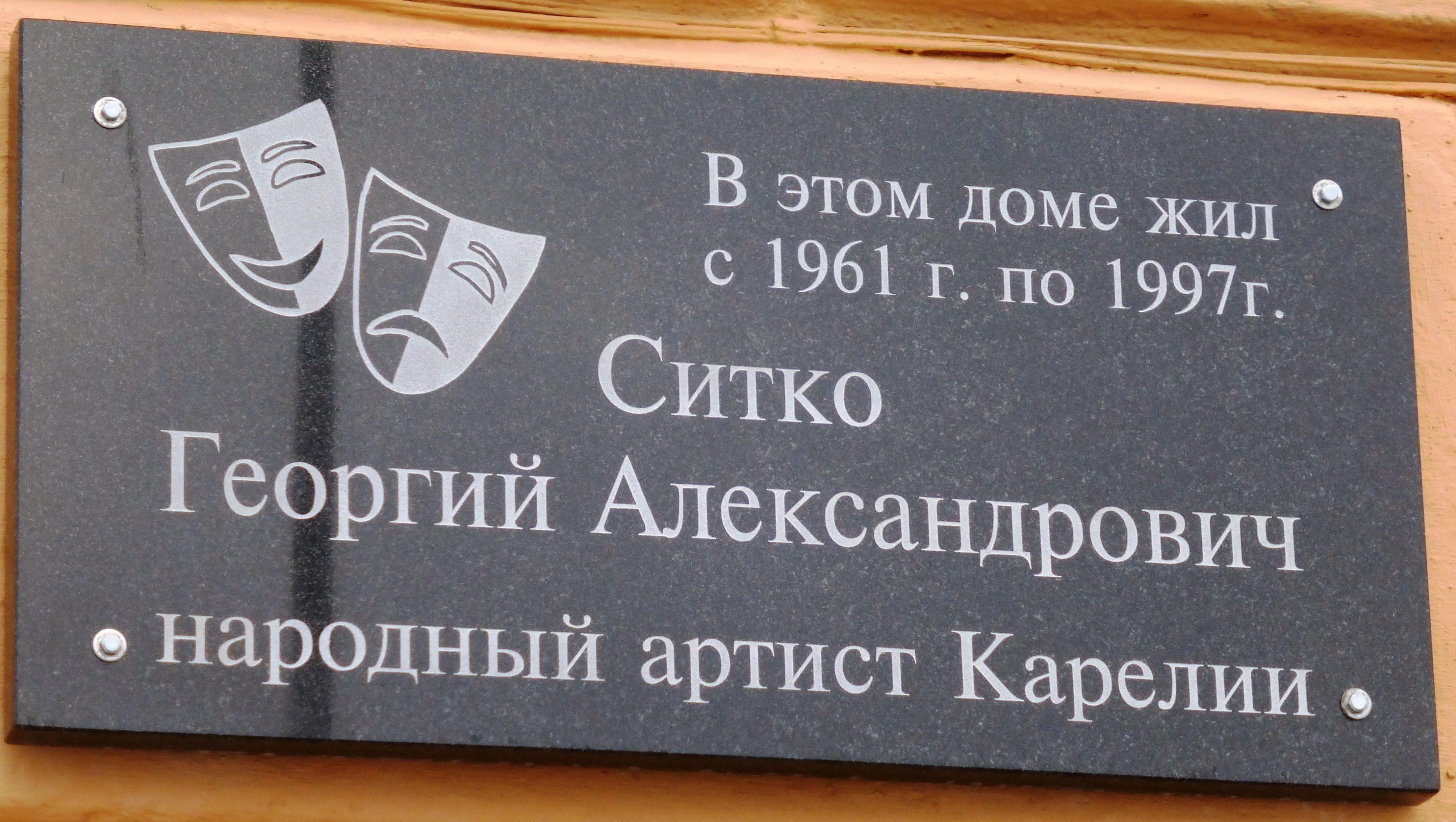 Karl Marx prospect, 14 (Petrozavodsk)